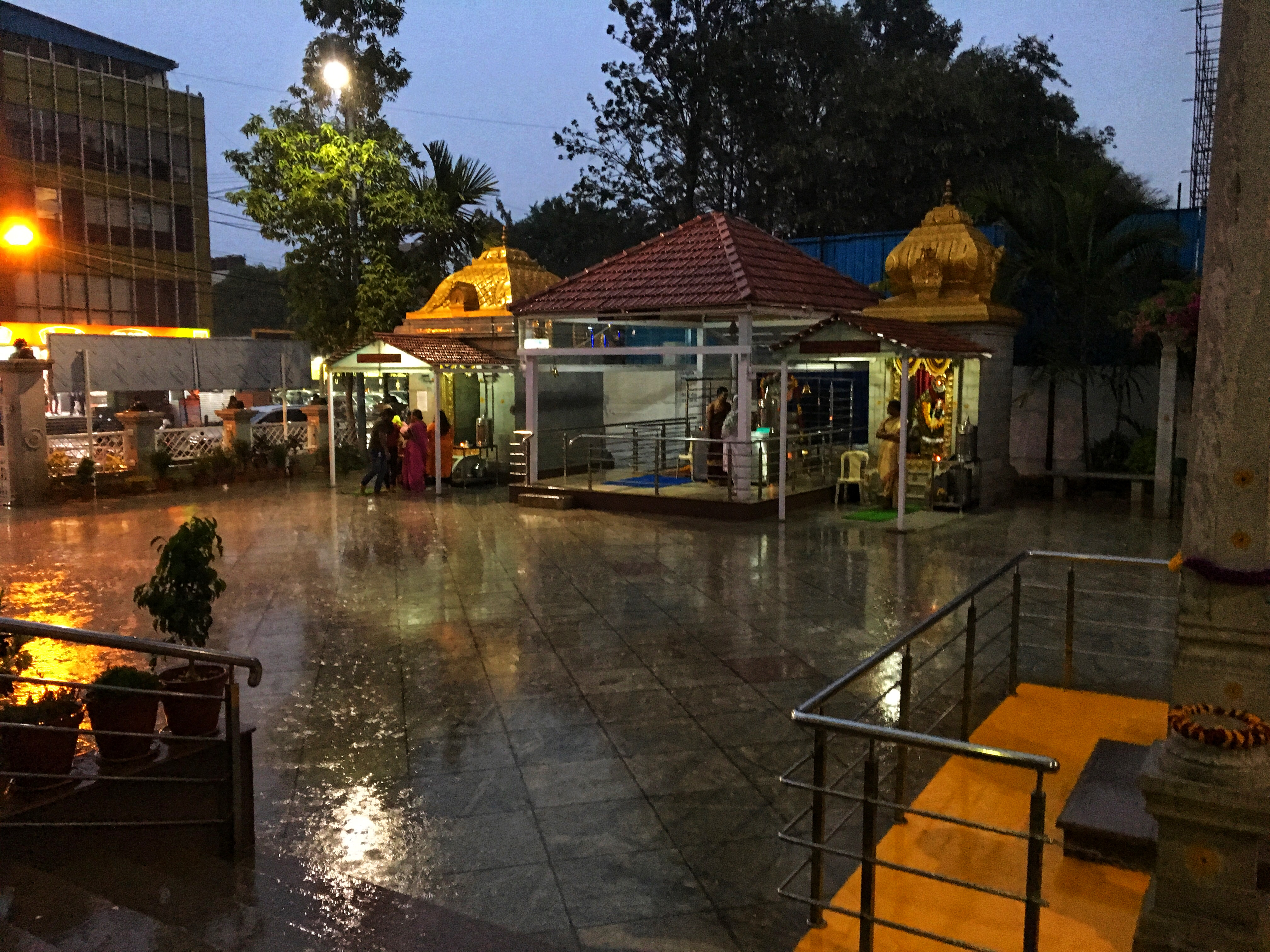 Basaveshwara Gayathri Temple Compound during rain and night time